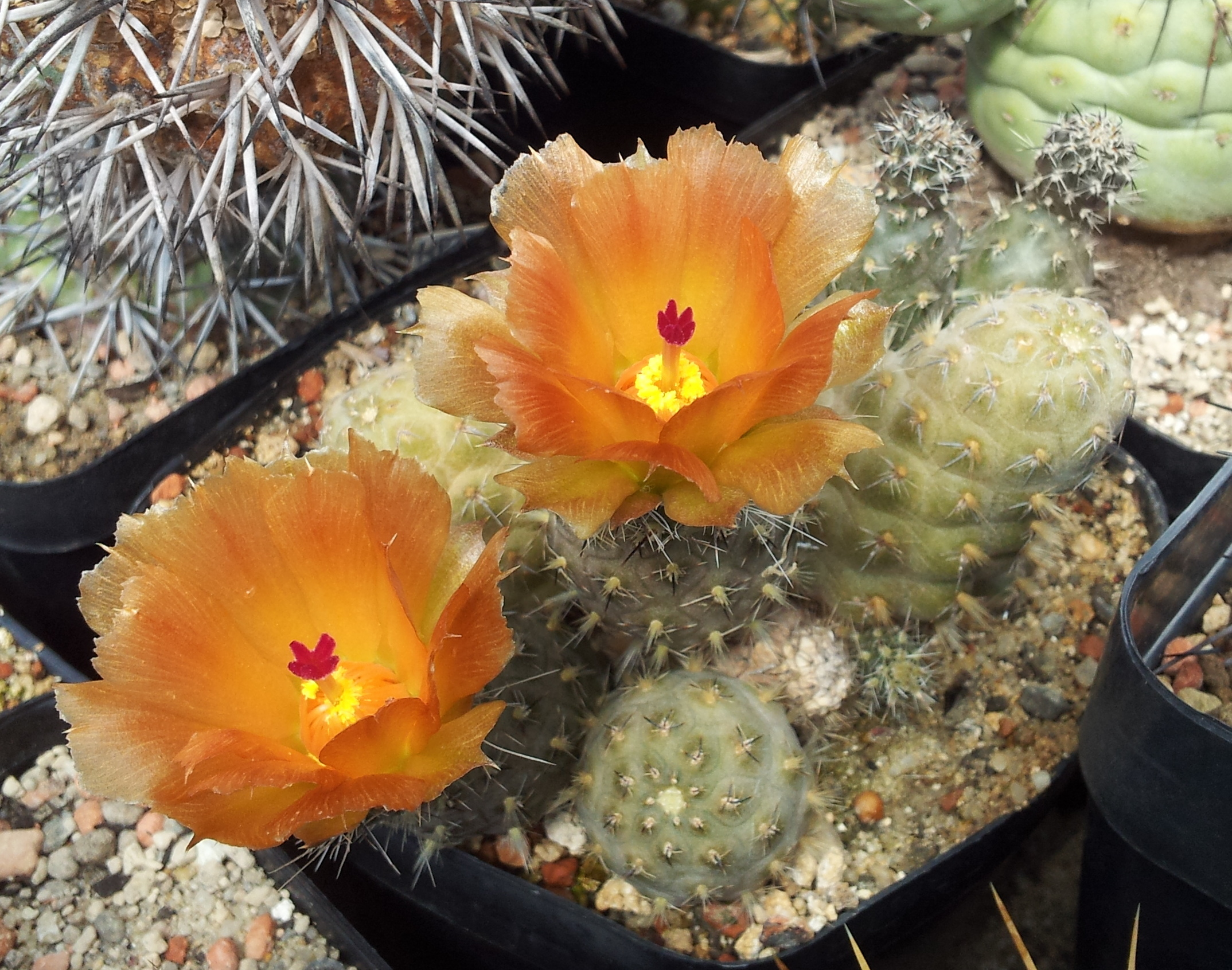 Pterocactus hickenii